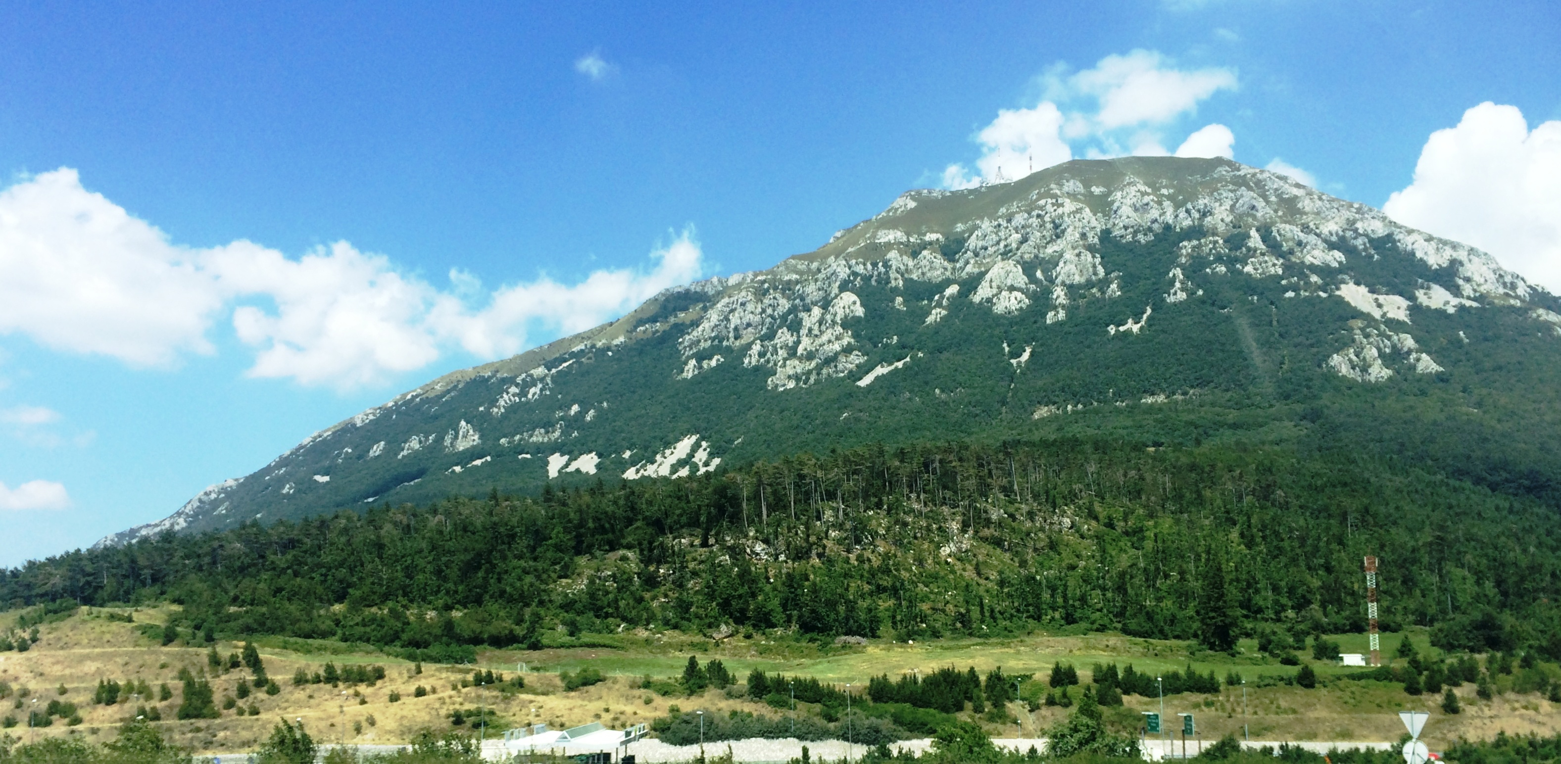 Image of the mountain of Nanos, just west of Postojna city, Slovenia.